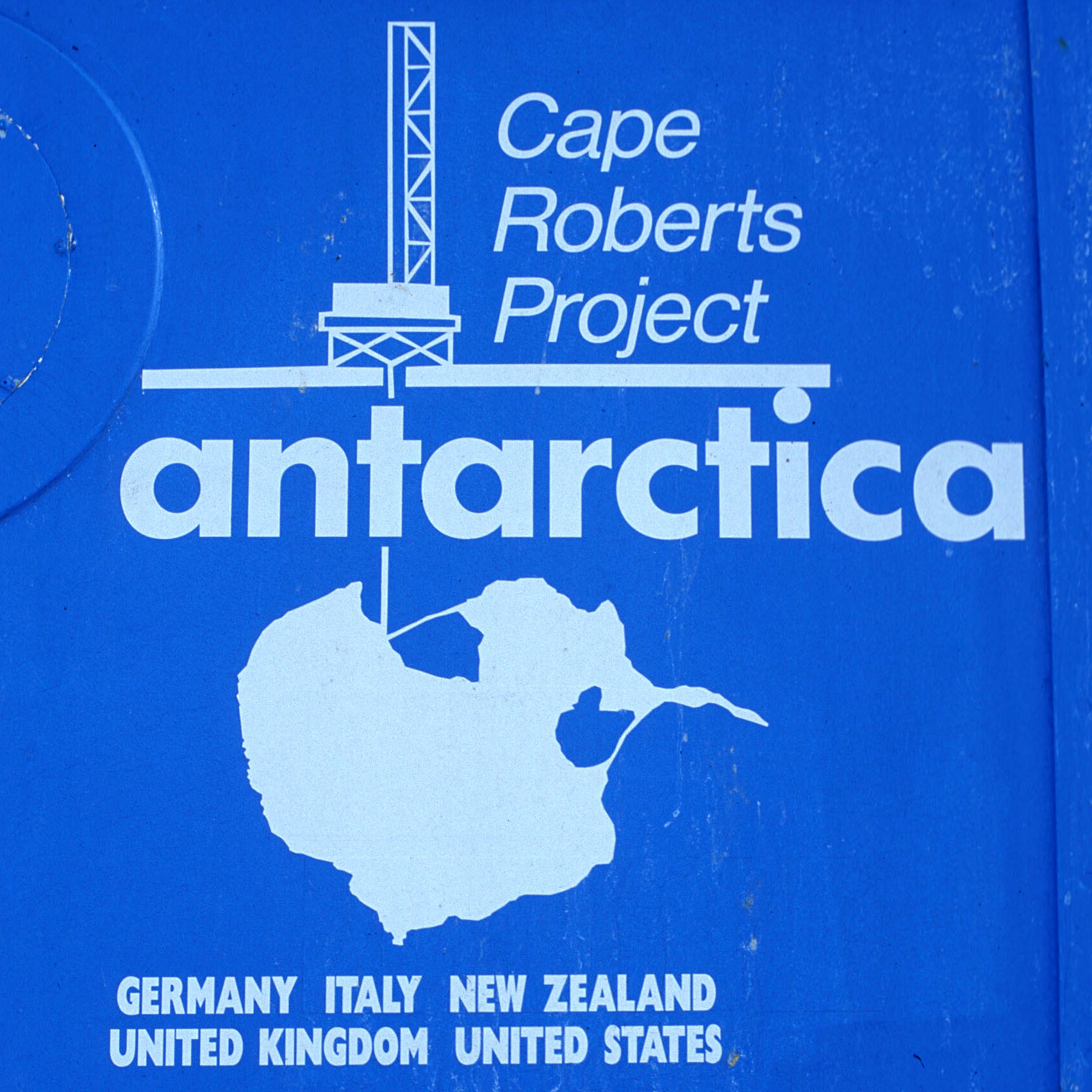 to be done